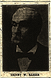 President of Daisy Mfg, 1895 thru 1919